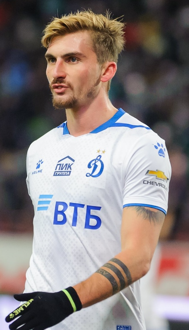 Maximilian Philipp playing for FC Dynamo Moscow in a game against FC Lokomotiv Moscow.